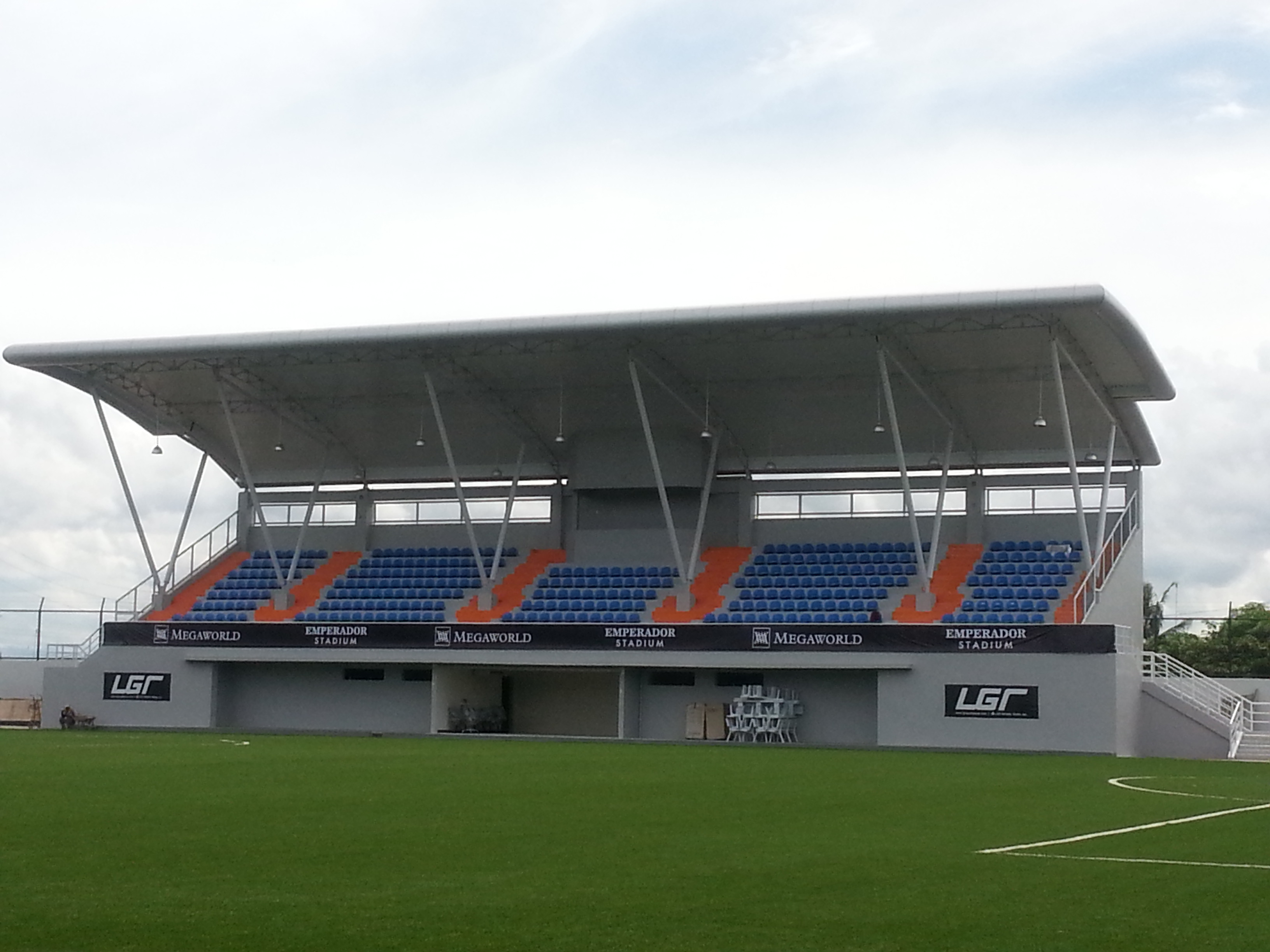 Emperador Football Field Stadium in Upper Mckinley, Fort Bonifacio,Taguig City, Philippines